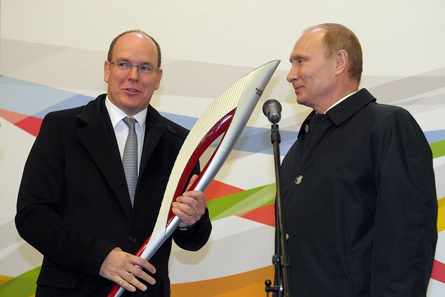 Albert II, Prince of Monaco with Vladimir Putin and Olimpic torch of Sochi 2014. Moscow, Kremlin. 4 oct 2013.